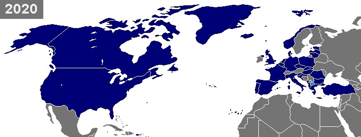 Map of the expansion of the intergovernmental military alliance NATO by North Macedonia on March 27, 2020.